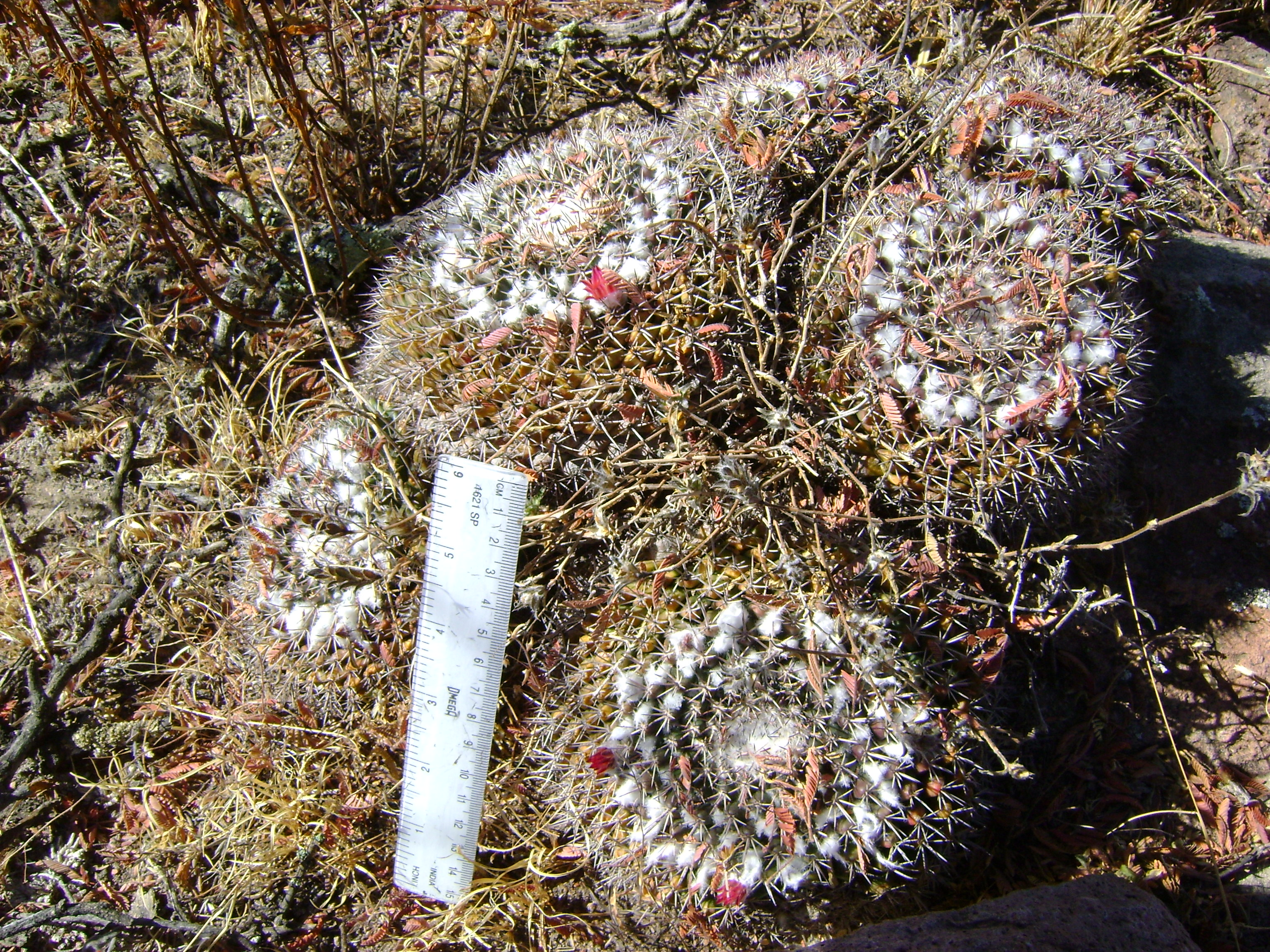 Near telango, South of Villa Nueve, Zacatecas